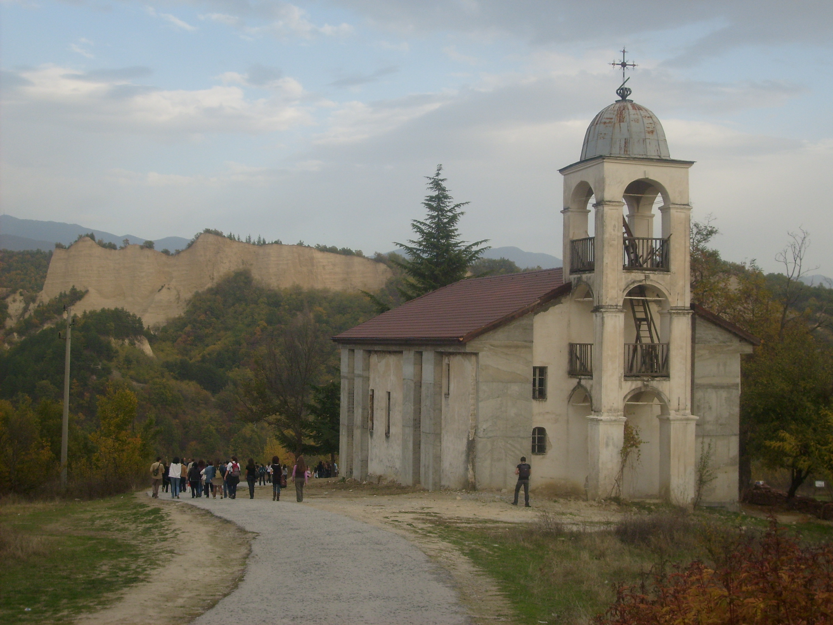 Rozhen Monastery